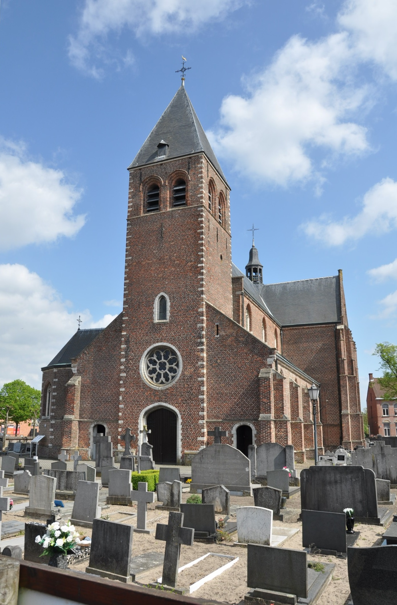 Parish church of the Holy Elizabeth of Hungary, in Zoersel (Antwerp province, Belgium).